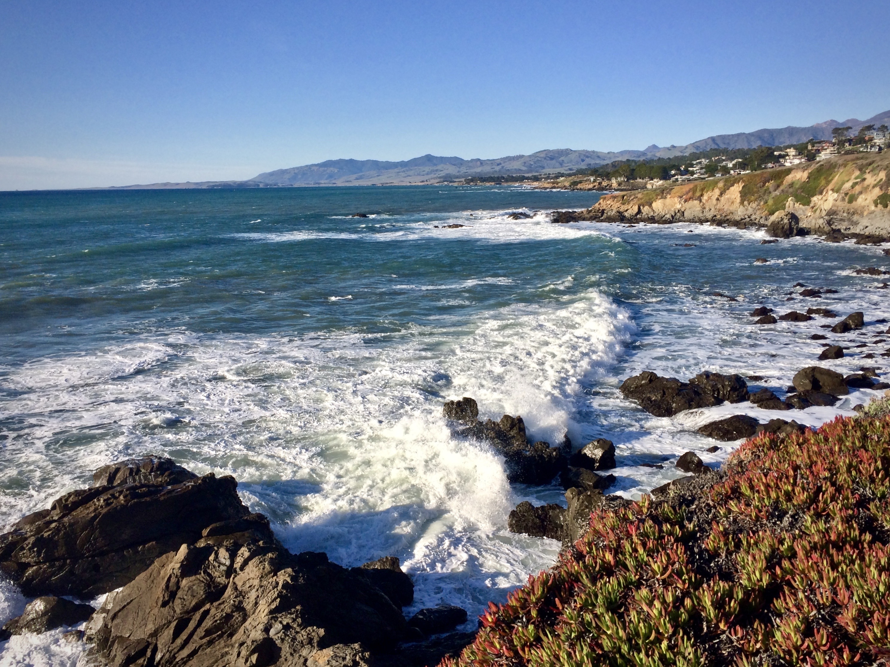 Cambria, Calif, along the Bluff Trail. On my daily walk. This is part of the California Coastal Trail , which is very much a WIP. Though one could put together a walk (I think) almost all the way to Monterey County, through state parks and beaches. I've walked quite a bit of this, though not all at any one time. Past San Carpoforo beach, the mountains come down to the sea, and the way becomes impassable, to old folks anyway.